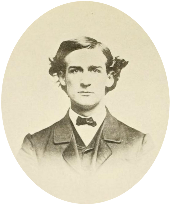 John J. Loud circa 1866 at Harvard College